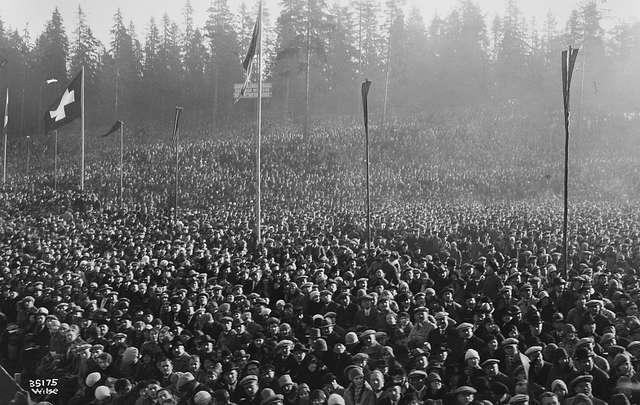 Holmenkollbakken in Oslo, Norway, during FIS Nordic World Ski Championships 1930